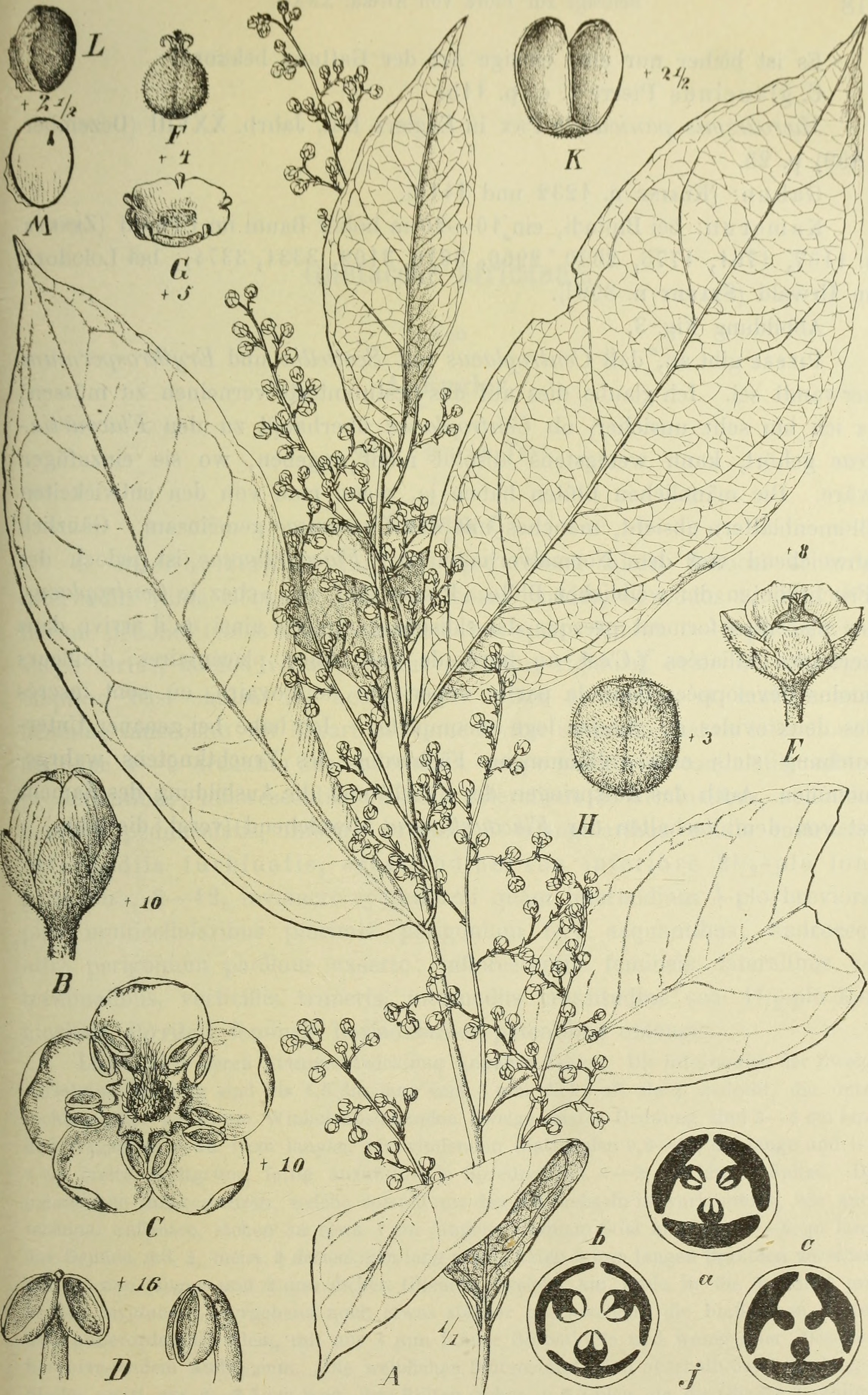 Title: Botanische Jahrbücher für Systematik, Pflanzengeschichte und Pflanzengeographie Year: 1881 (1880s) Authors: Engler, Adolf, 1844-1930 Subjects: Botany; Plantengeografie; Paleobotanie; Taxonomie; Pflanzen Publisher: Stuttgart : Schweizerbart Text Appearing Before Image: ' Text Appearing After Image: Flg. 3. Centroplacus glaucinus Pierre. A Blühender Zweig, B Knospe, C ^ Blüte von oben gesehen, T) Staubblätter von vorn und von der Seite, E Q Blüte. F Frucht- knoten, Q Schüsselbildung am Grunde des Fruchtknotens, H Frucht. / Fruchtknoten- querschnitte, a von ganz oben, h von der Mitte, c von unten, K eine der Klappen der autgesprungenen Frucht, L Samen mit Arillus, M Samen im Längsschnitt